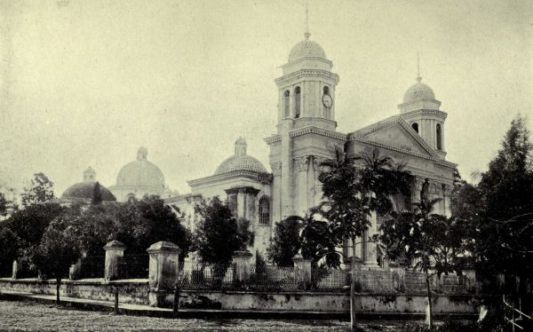 Cathedral of Sonsonate, Department of Sonsonate.